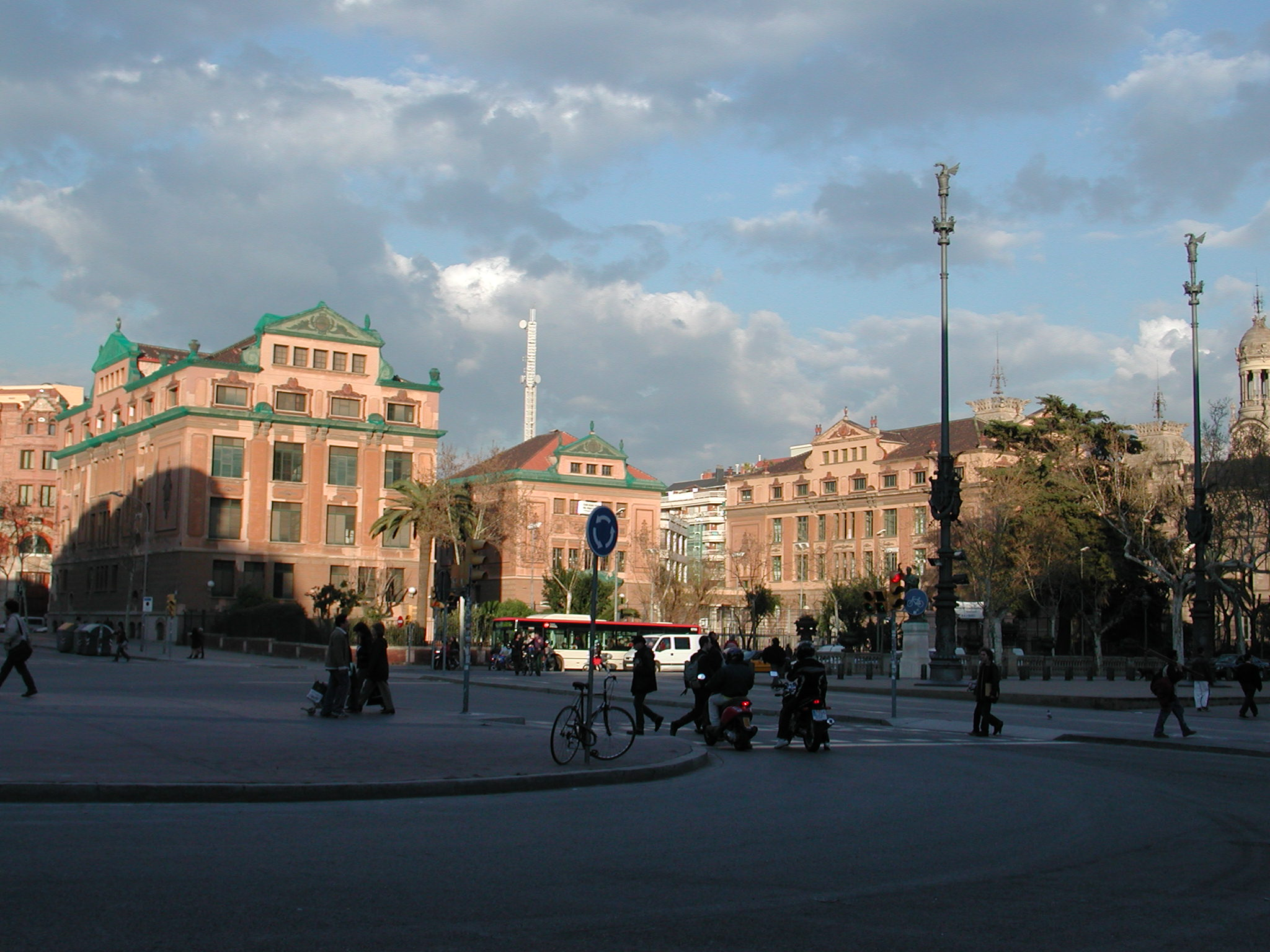 School in Barcelona